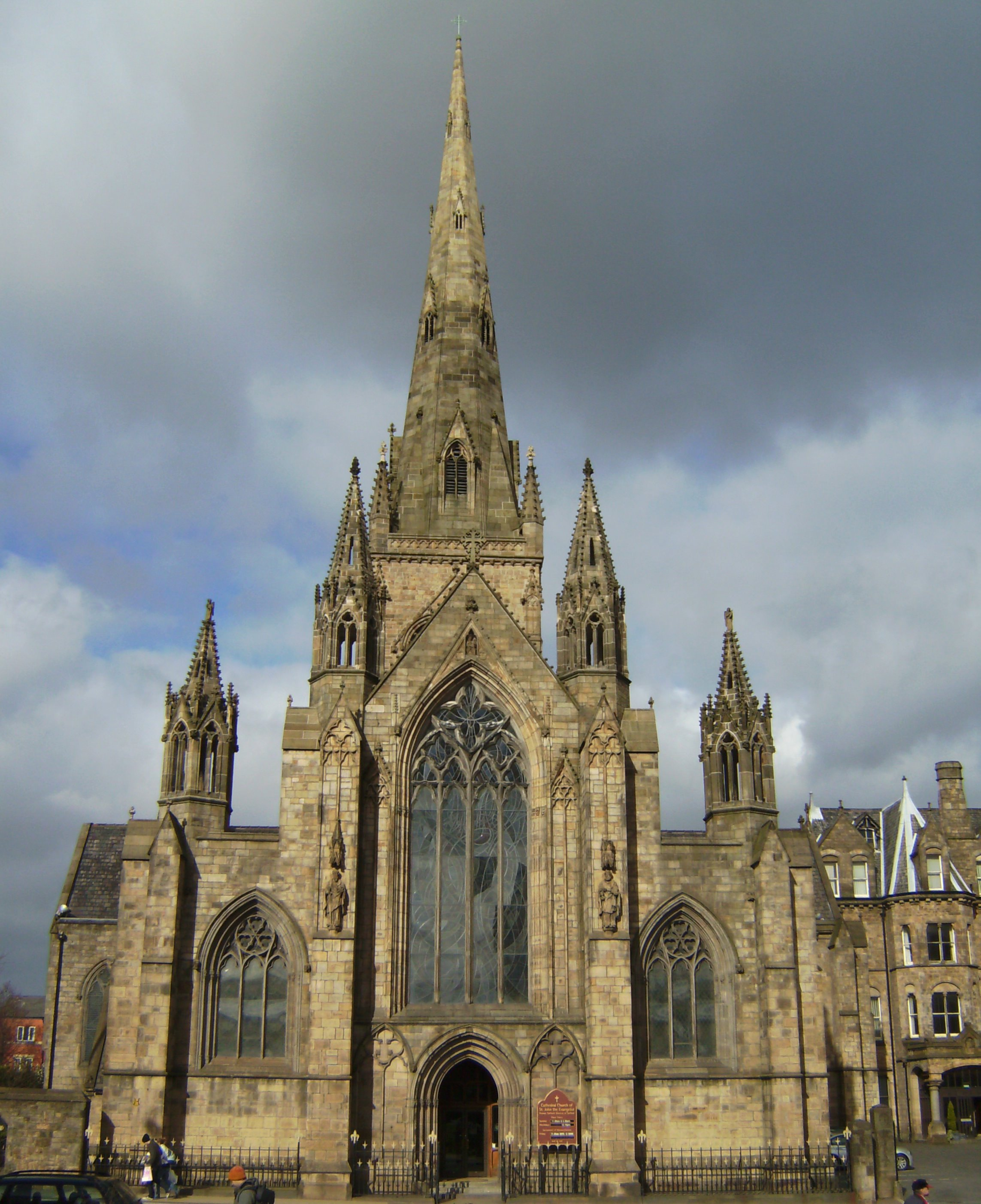 Cathedral Church of St. John the Evangelist, Salford